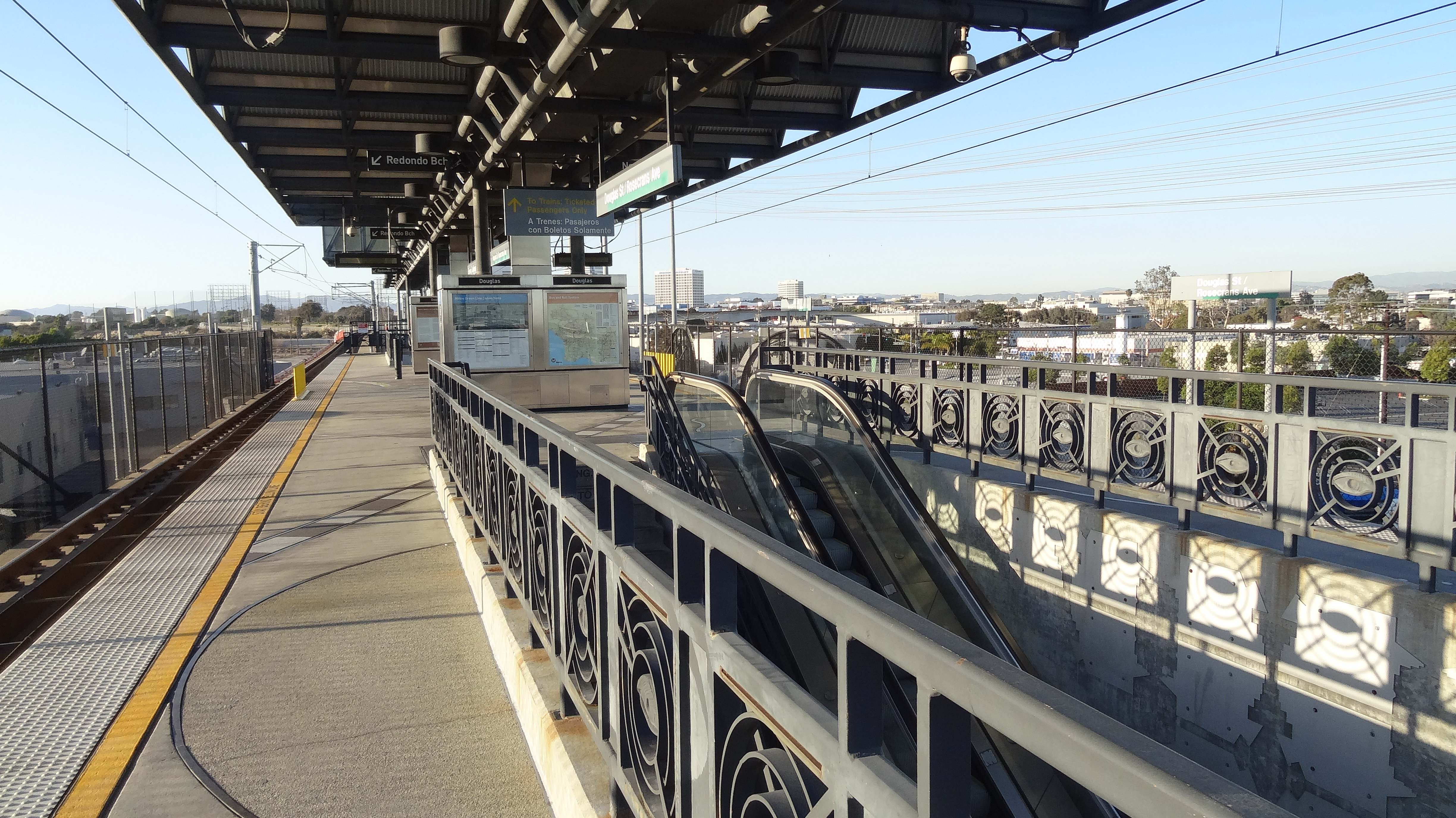 Douglas Metro Rail station platform — on the Green Line in El Segundo, California. Near the corner of Douglas Street and Park Place, north of Rosecrans Avenue.